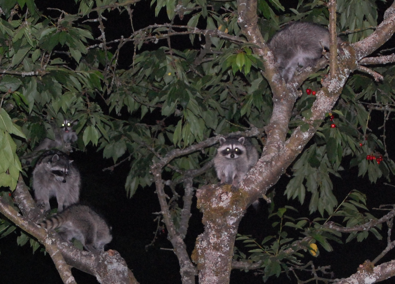 Mother raccoon and 4 kits eating cherries in suburban backyard cherry tree; Burnaby, BC.